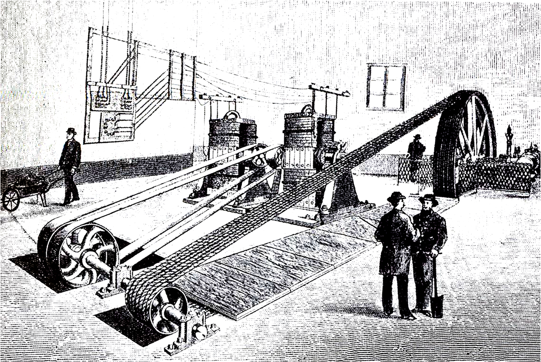 Coal-fired power plant of the Frankfurt and Offenbach Tramway Society (FOTG), one of the first electric tramway lines in the world and the first commercial electrical tramway in Germany and also the first tramway in Germany using a overhead line. The line was opened at February 18th, 1884 to Frankfurt-Oberrad and at April 10th, 1884 further to Offenbach.